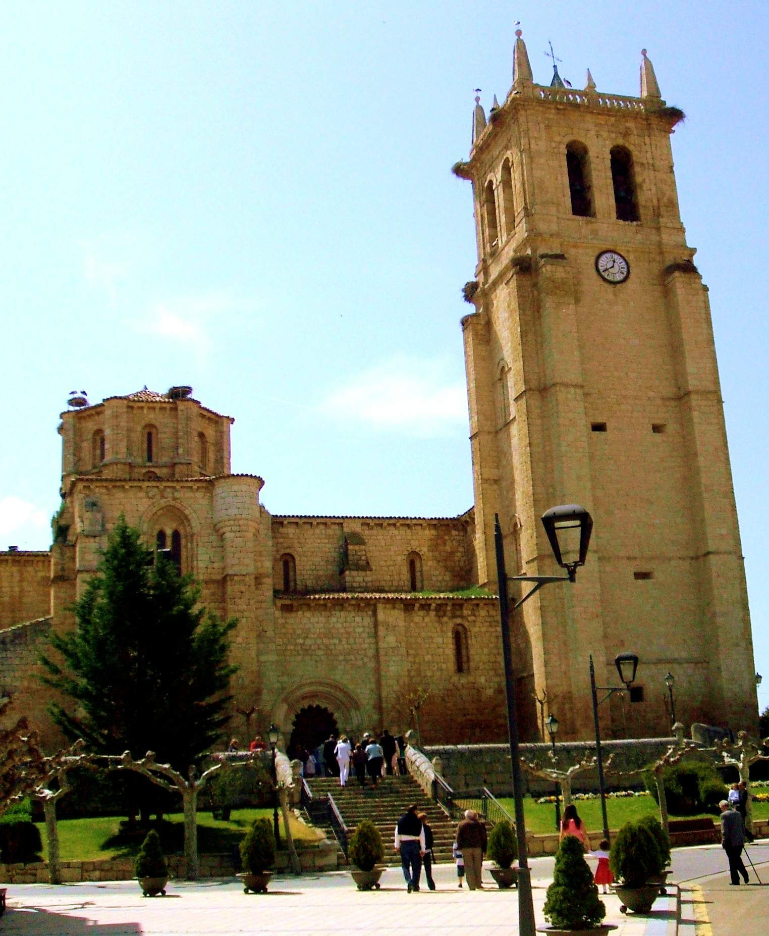 iglesia de Santa María la Mayor de Villamuriel de Cerrato, Palencia, Castilla y León, España